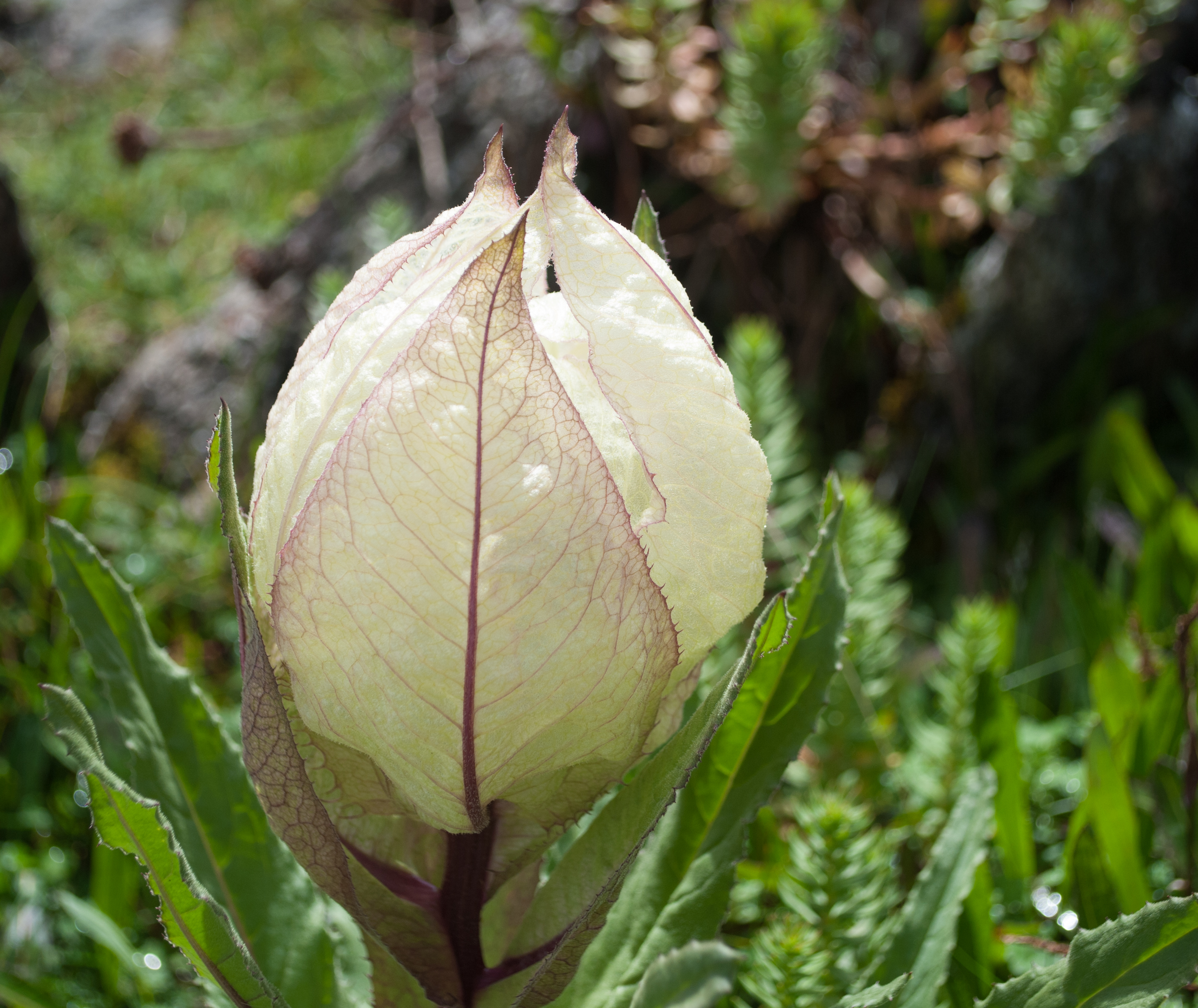 Saussurea obvallata is Scientific name of a mystic flower known as Brahmakamal. This picture was taken during a trek to Roopkund. This flower had blossomed near Kaluvinayak, way to Baguabasa. These flower plants grows places around 13,000 ft(3962 m). Brahma kamal is a medicinal herb.